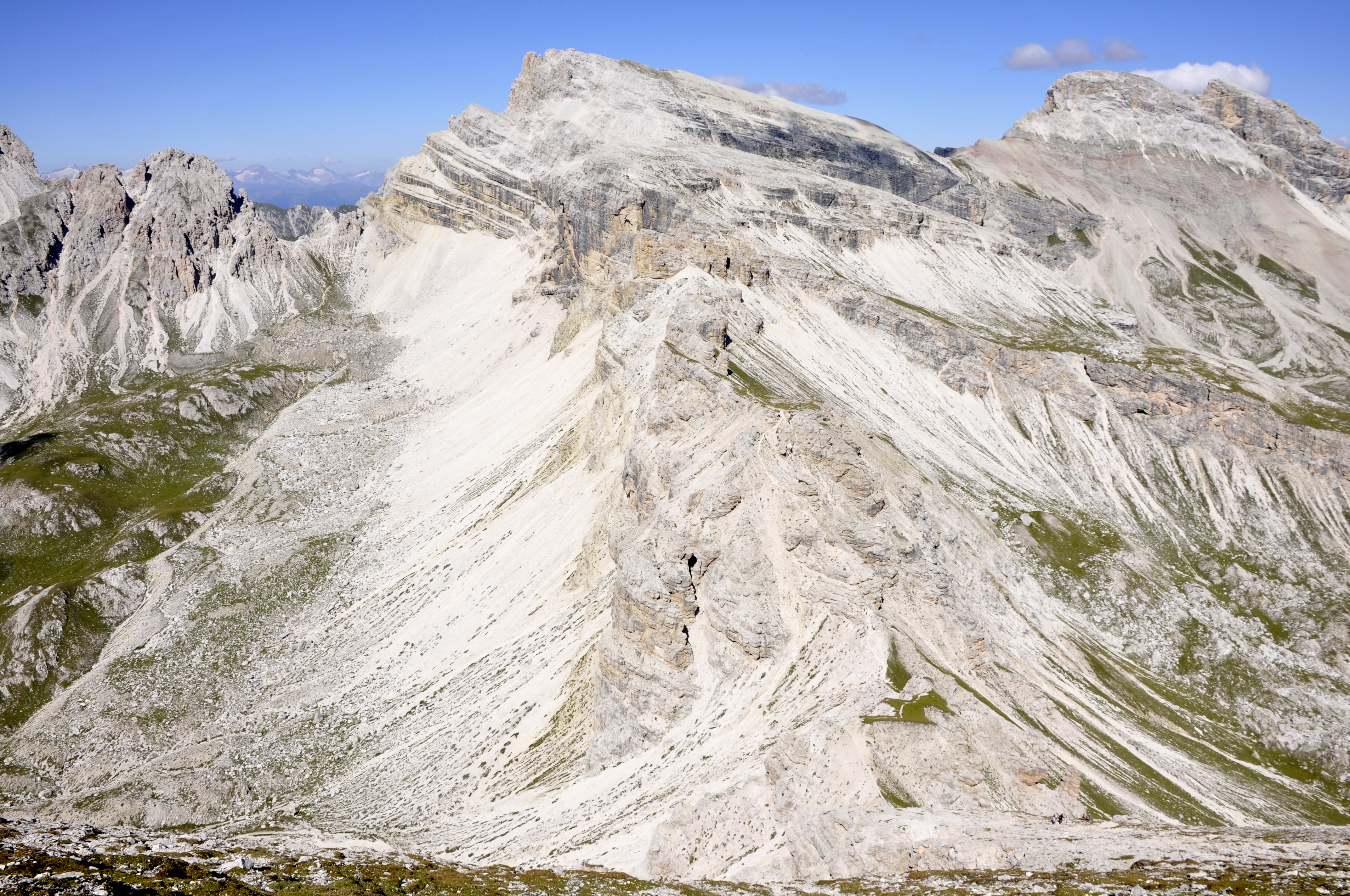 ThePiz Duleda and the Pizes de Puez from Col dala Pieres